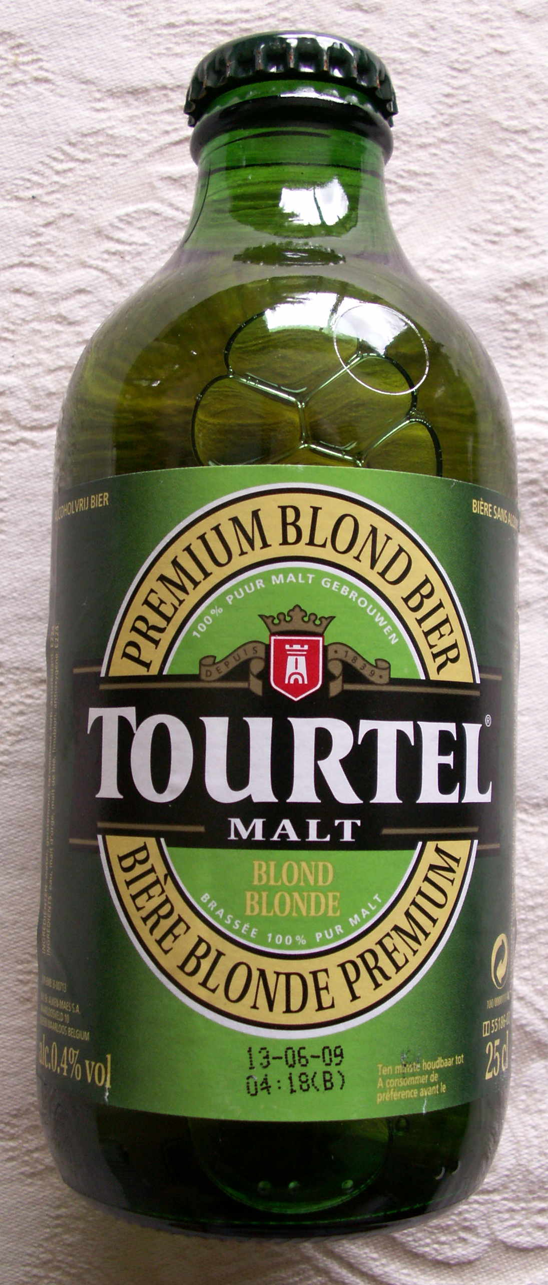 A picture of a near beer (Tourtel). It has 0,4% ABV.